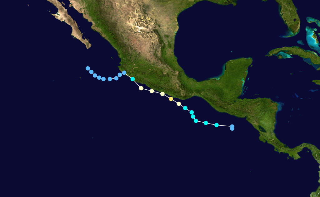 Hurricane Bridget (1971) track. Uses the color scheme from the Saffir-Simpson Hurricane Scale.